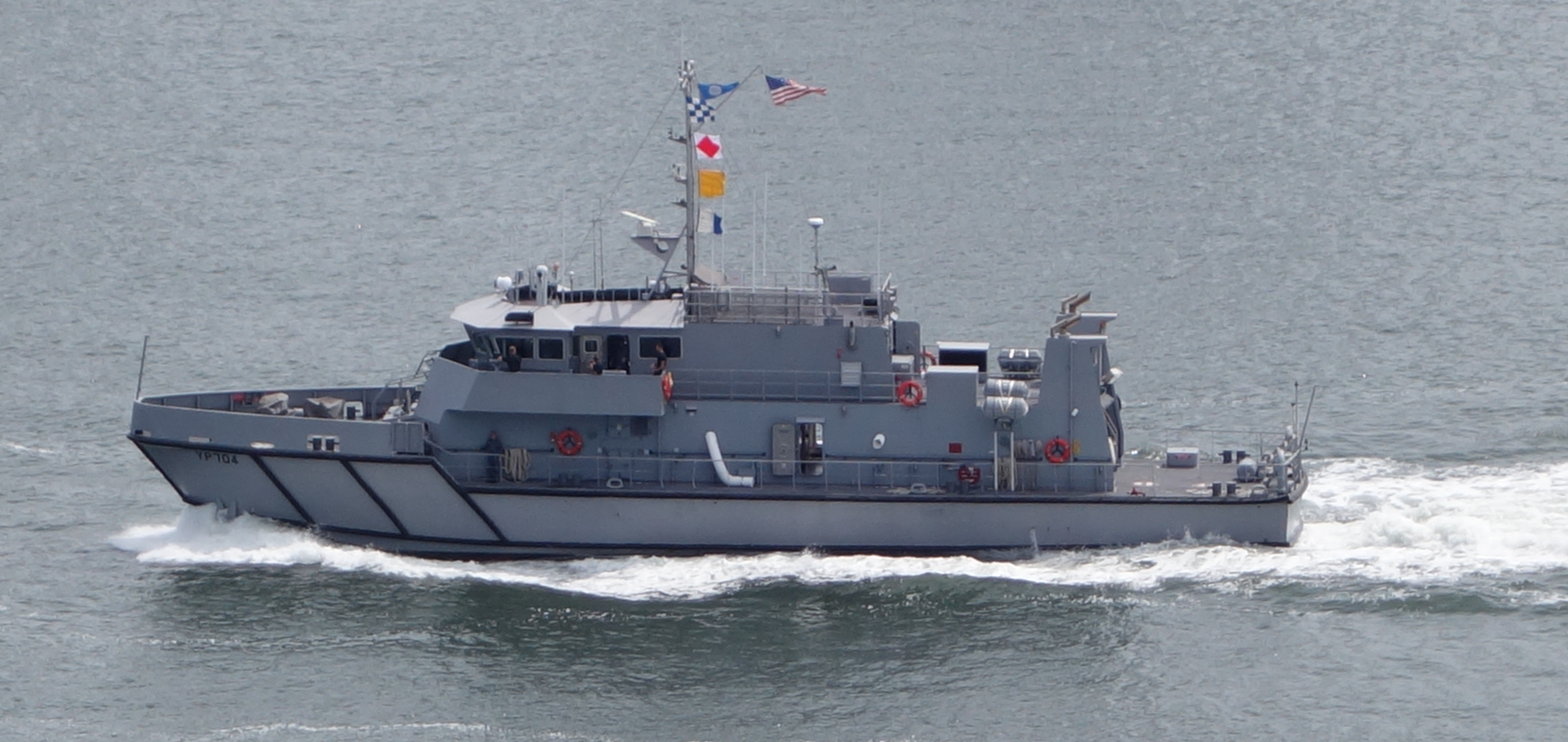 YP704 on East River, New York. 2015